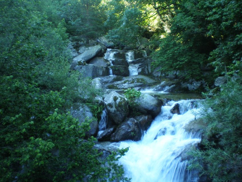 Madriu River, Madriu-Perafita-Claror Valley, Andorra.